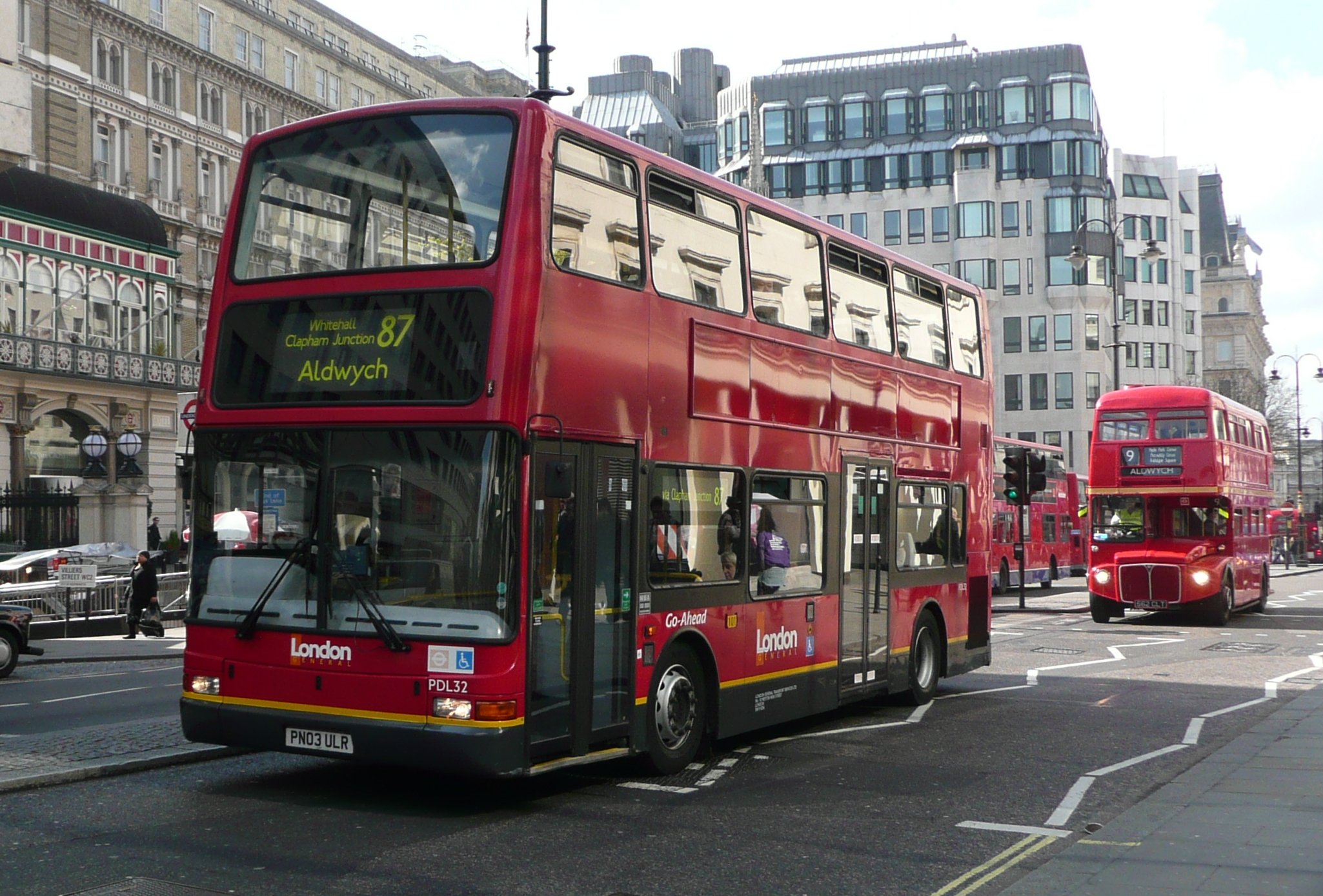 Two London buses heading east along the Strand, London, past Charing Cross railway station, to terminate in the Aldwych. Infront is London General bus PDL32 (reg. PN03 ULR), a 2003 Dennis Trident double-decker with Plaxton President bodywork, on route 87. Behind it is First London Routemaster RM1562 (562 CLT) operating heritage route 9.